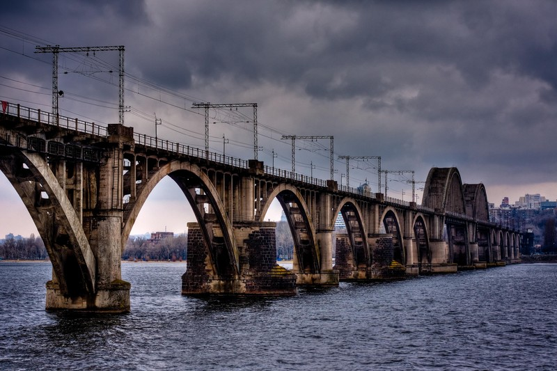 Merefa-Kherson Railway bridge in Dnipropetrovsk, Ukraine